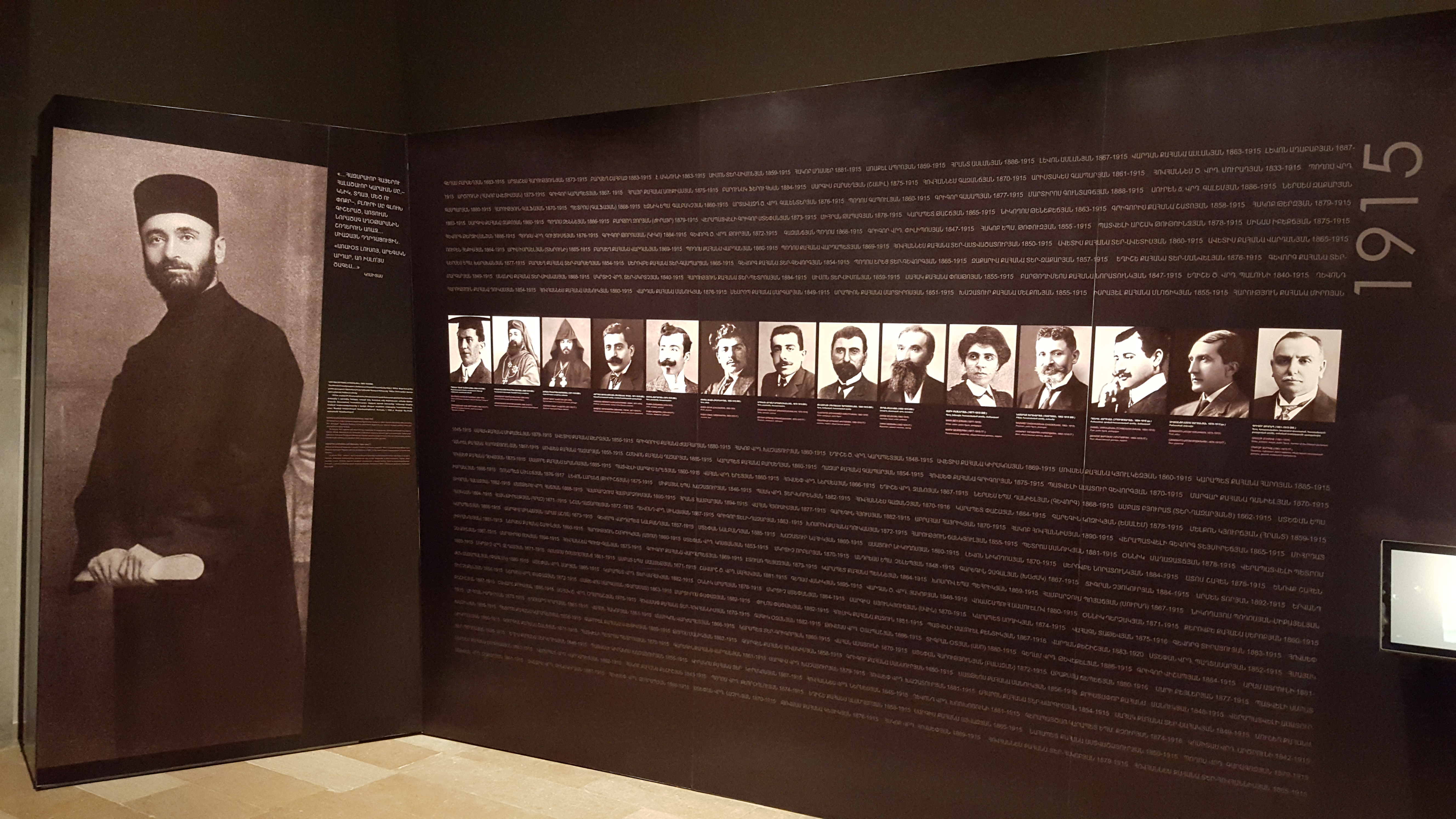 Deportation of Armenian intellectuals on 24 April 1915 at Tsitsernakaberd